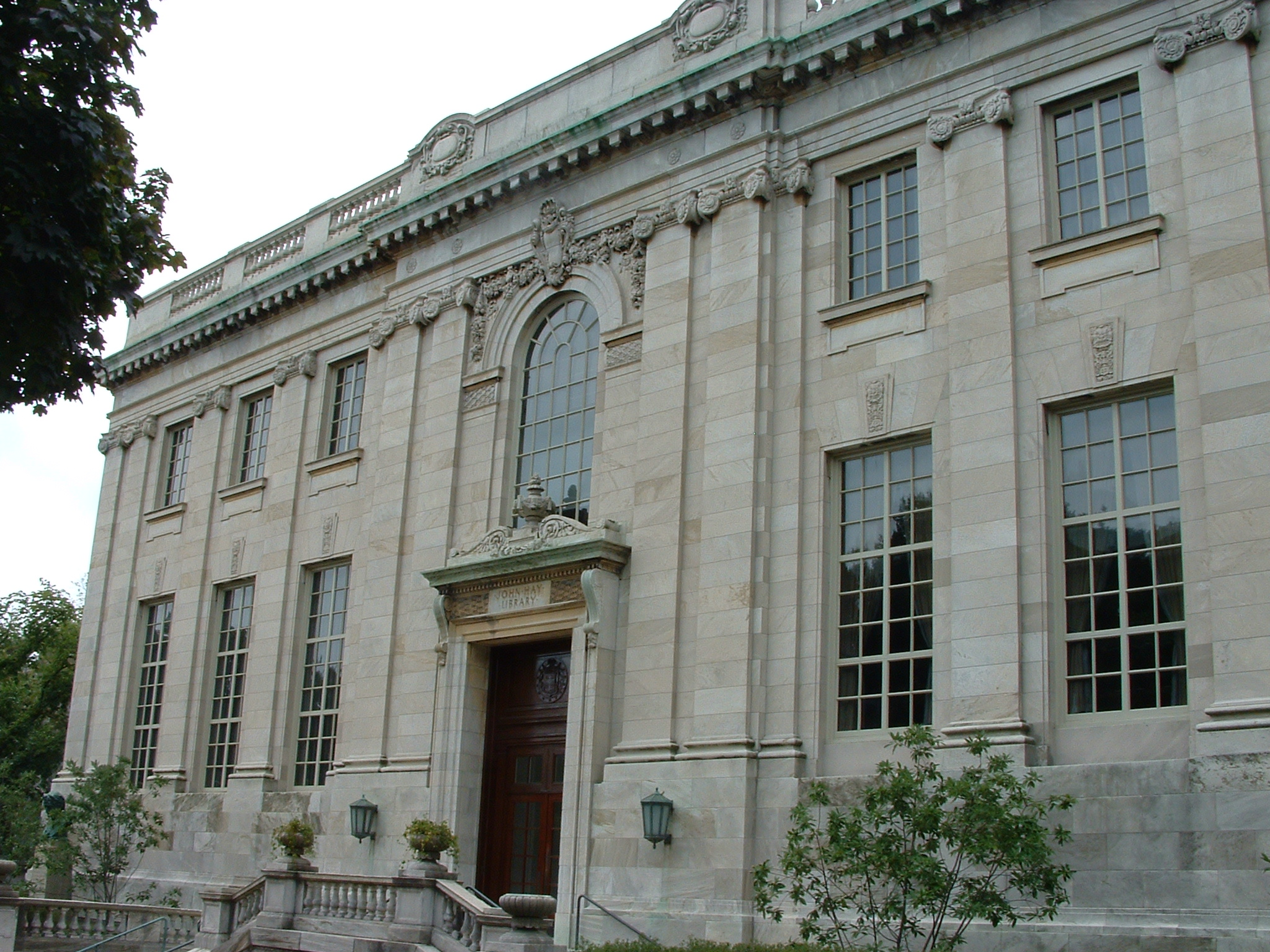 Brown University - John Hay Library